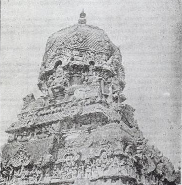 The central shrine of Kalyanasundaresar Temple, Nallur